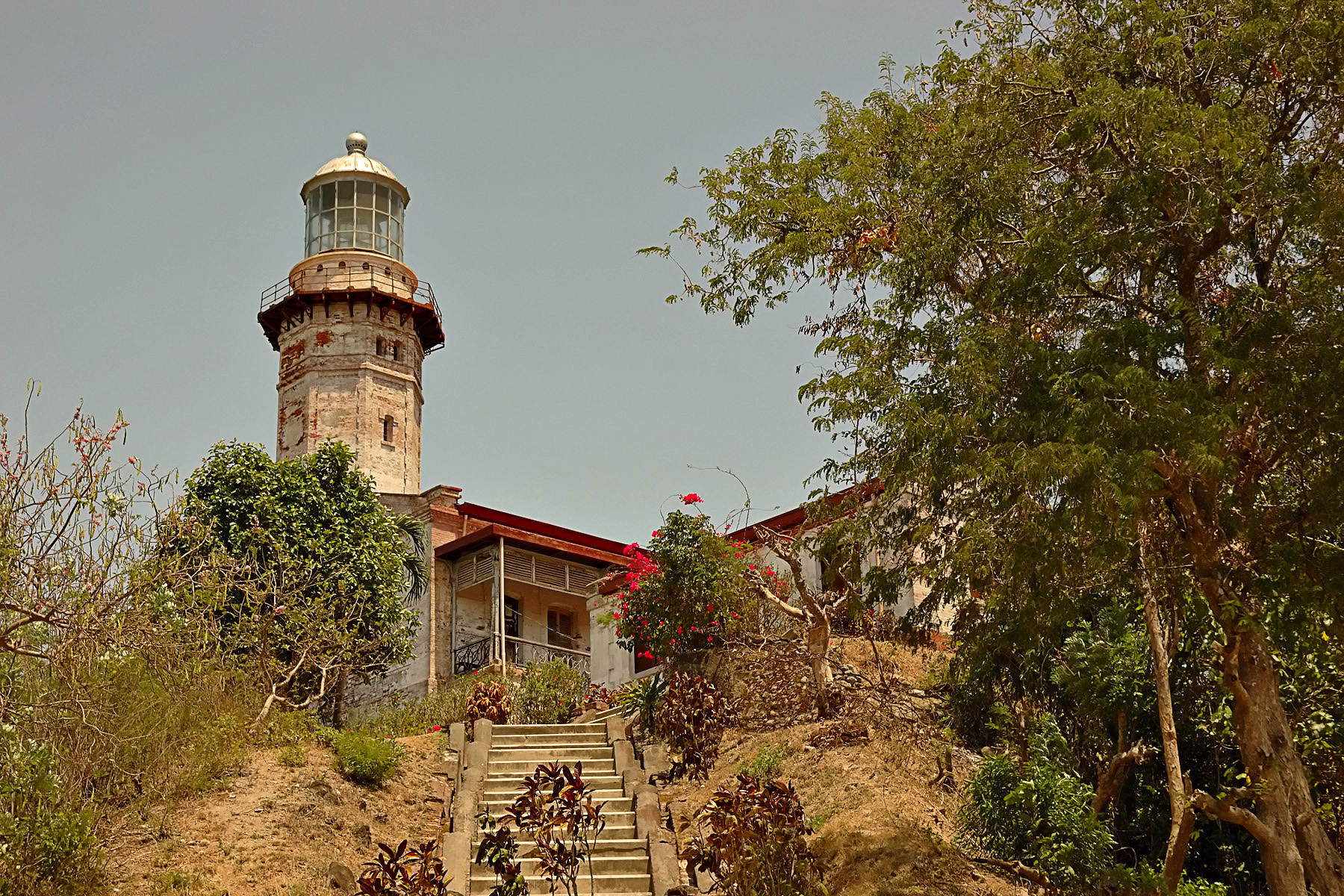 Cape Bojeador Lighthouse